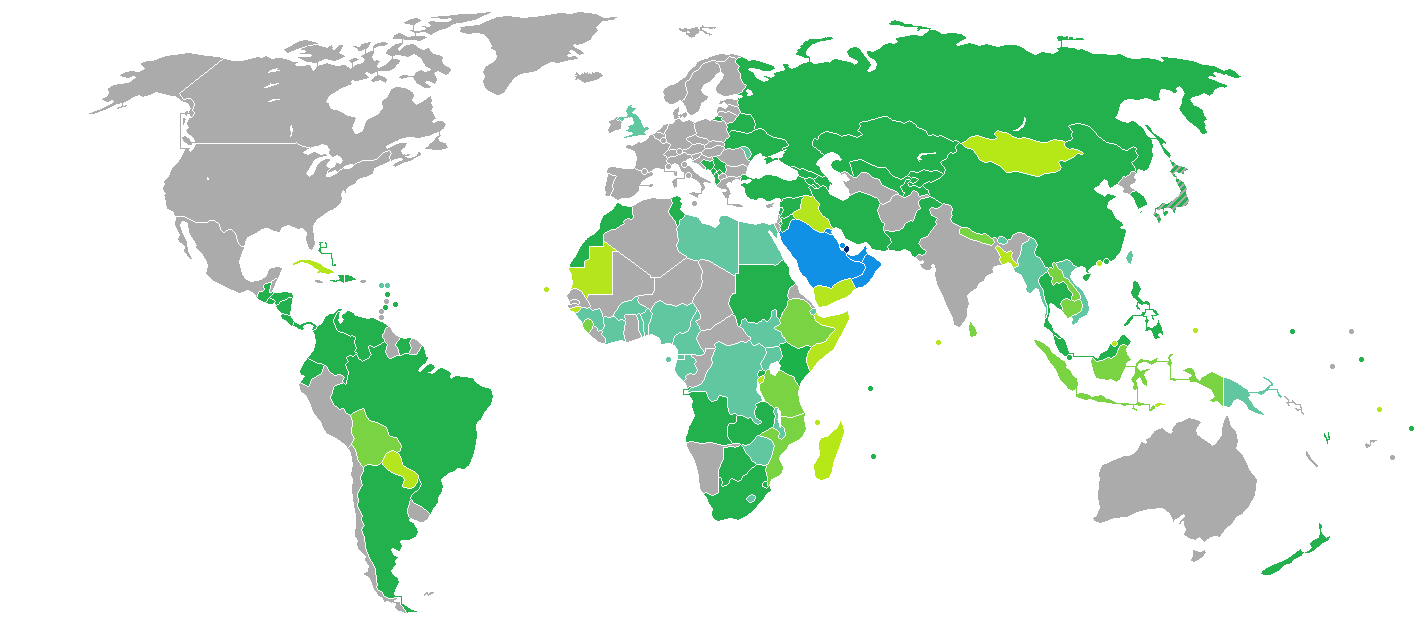 Visa requirements for Qatari citizens Qatar Freedom of movement Visa free access Visa on arrival eVisa Visa available both on arrival or online Visa required